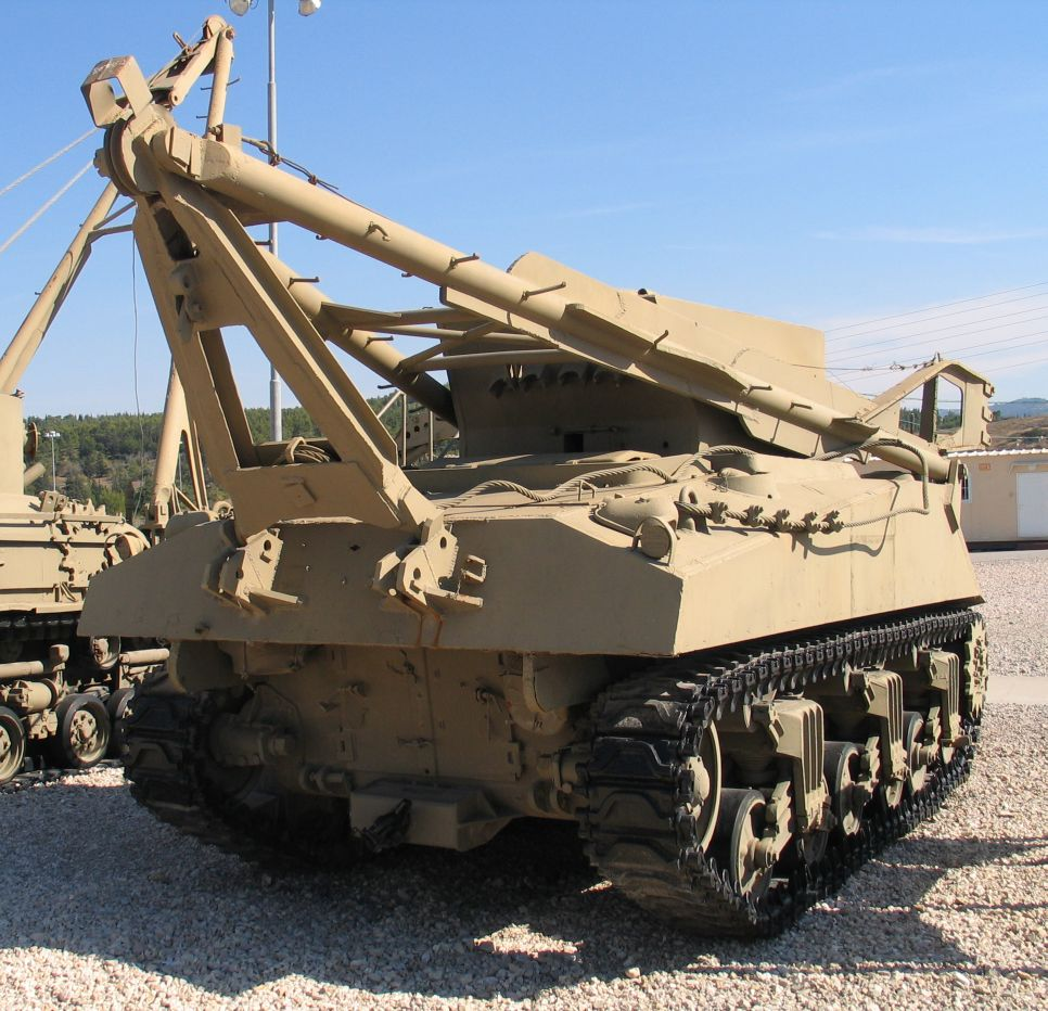 Description: M32 ARV (VVSS variant) in Yad la-Shiryon Museum, Israel. 2005. Source: Photo by me, User:Bukvoed.